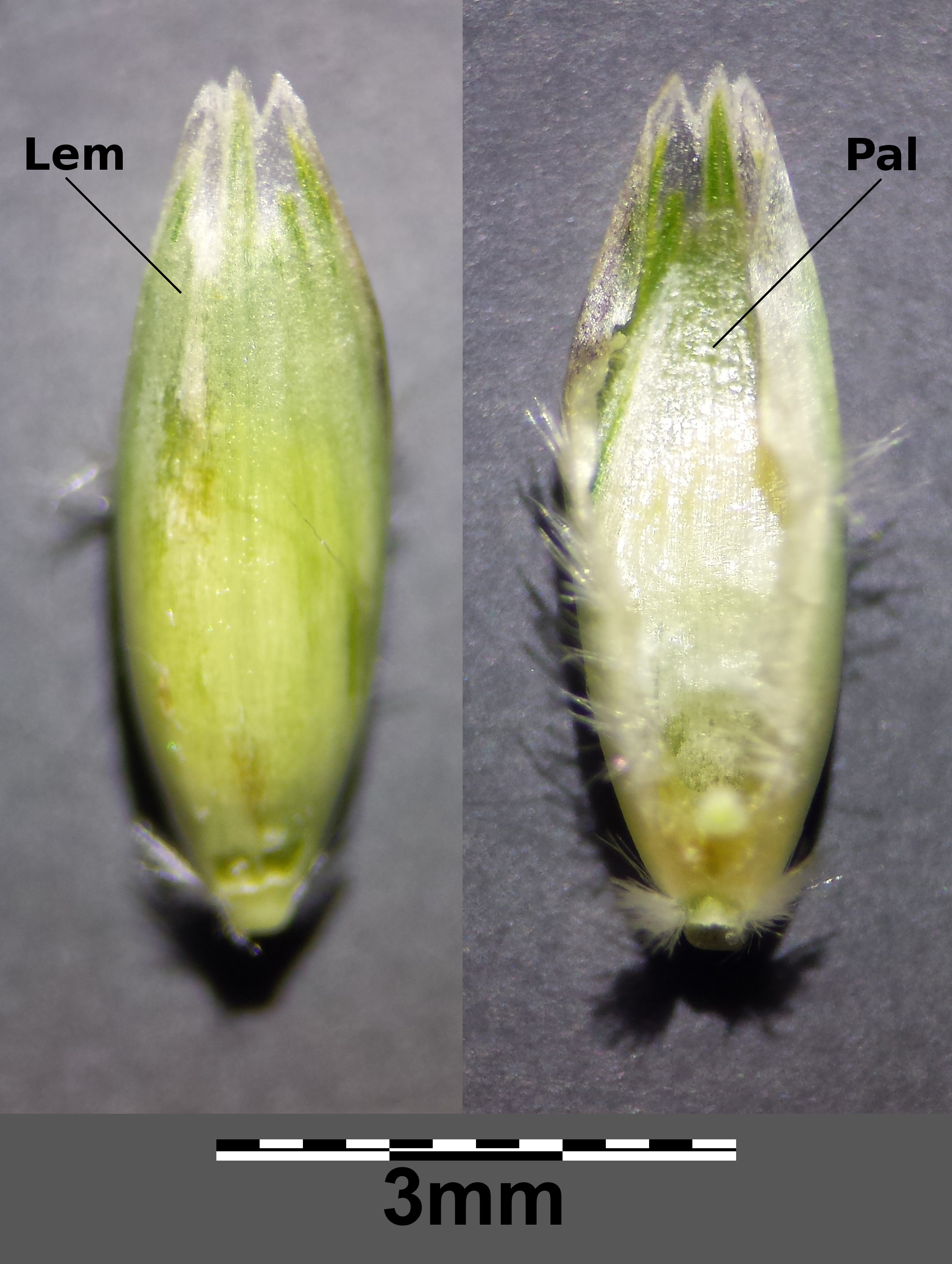 Caryopsis wrapped within lemma (Lem) and palea (Pal) Taxonym: Danthonia decumbens ss Fischer et al. EfÖLS 2008 ISBN 978-3-85474-187-9 Location: near Kaltenleutgeben, district Mödling, Lower Austria - ca. 430 m a.s.l. Habitat: meadows